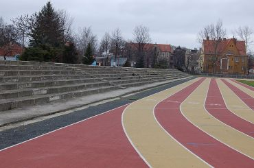 Stadium in polish city - Lubin.